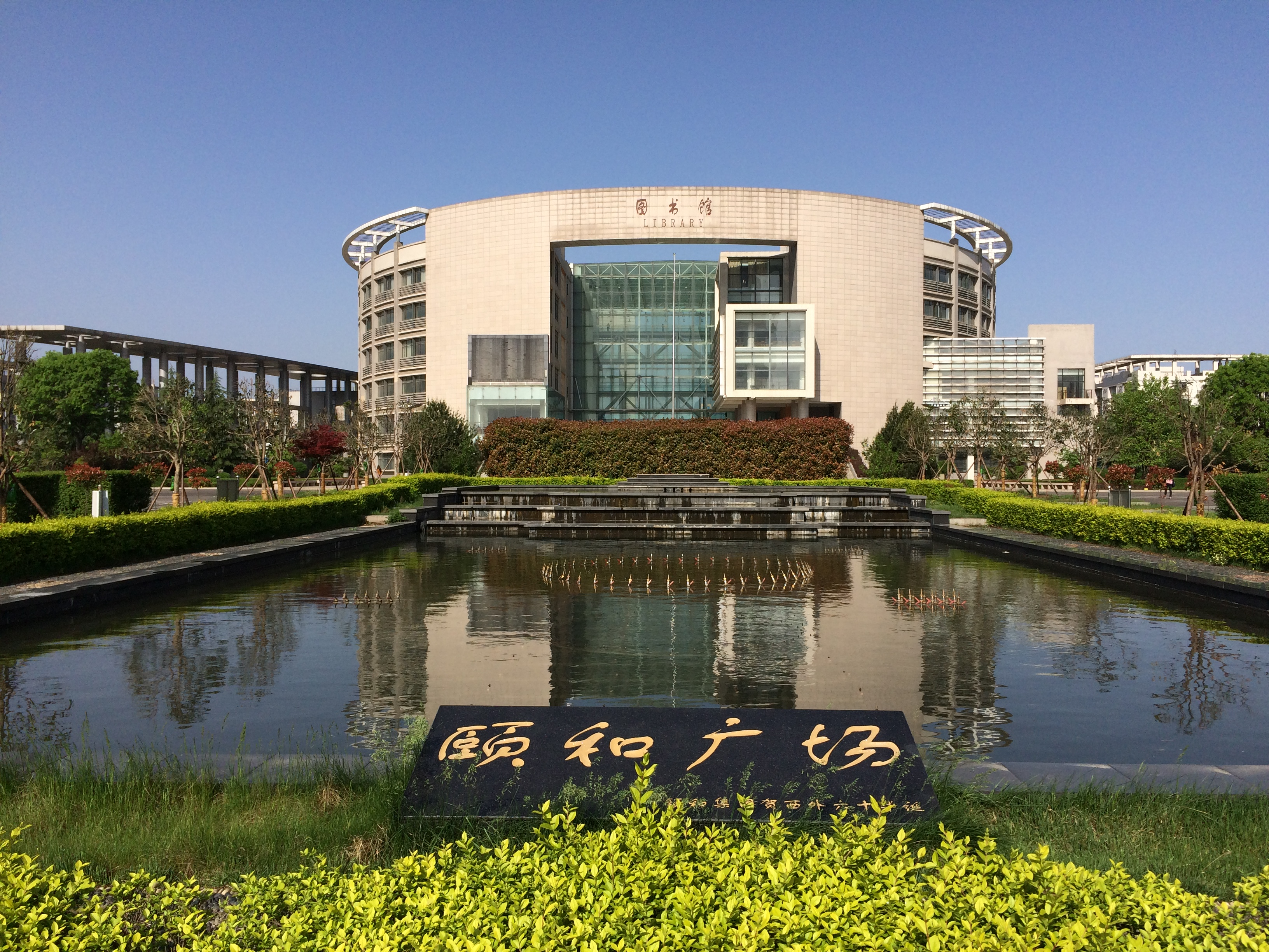 Una vista de la Universidad de Estudios Internacionales de Xi'an